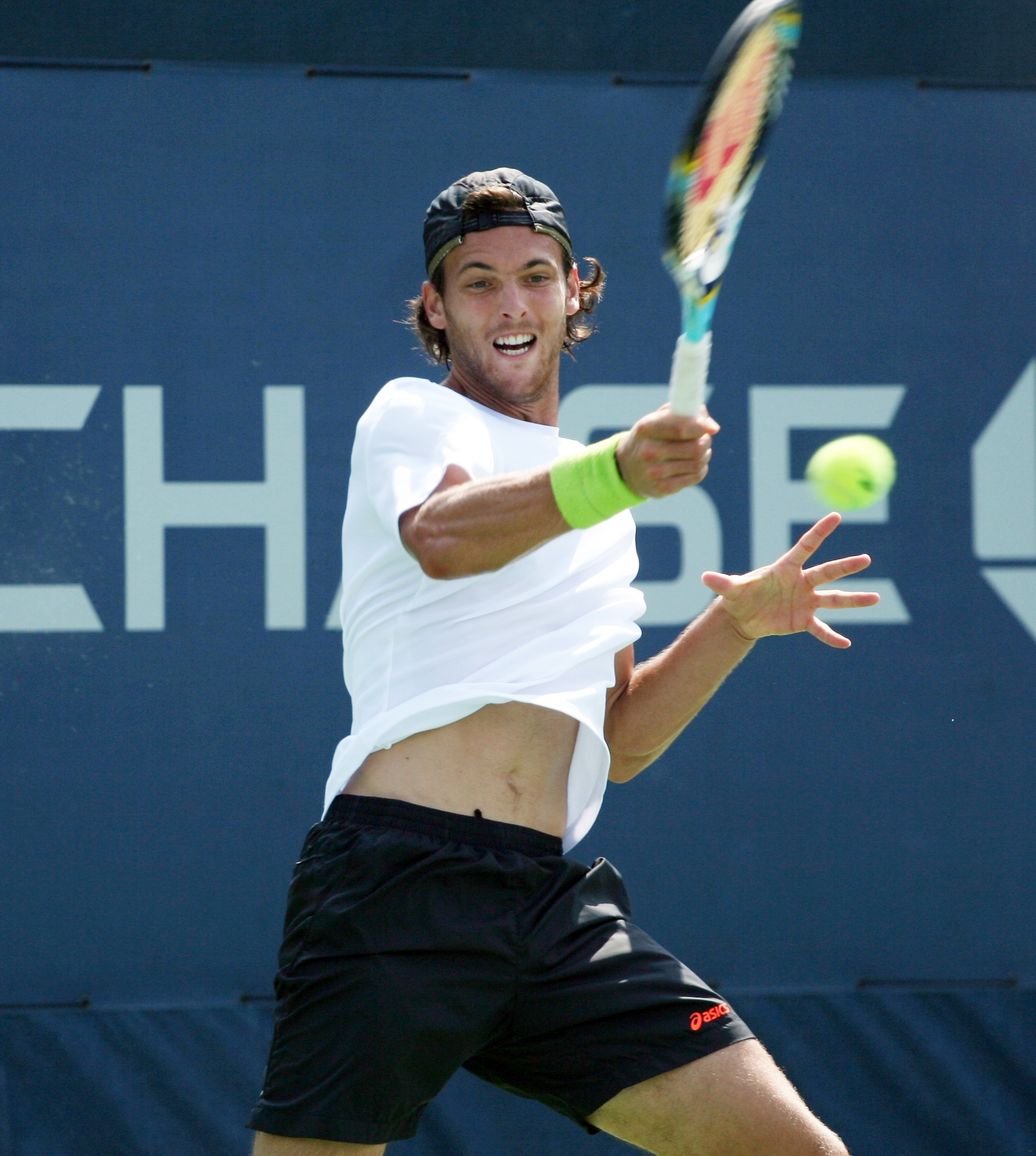 Friday, August 30